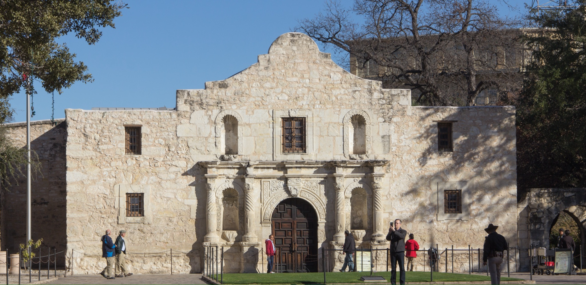 Tourists stroll in front of San Antonio's number one tourist attraction. Author is User:Jcutrer on Commons.